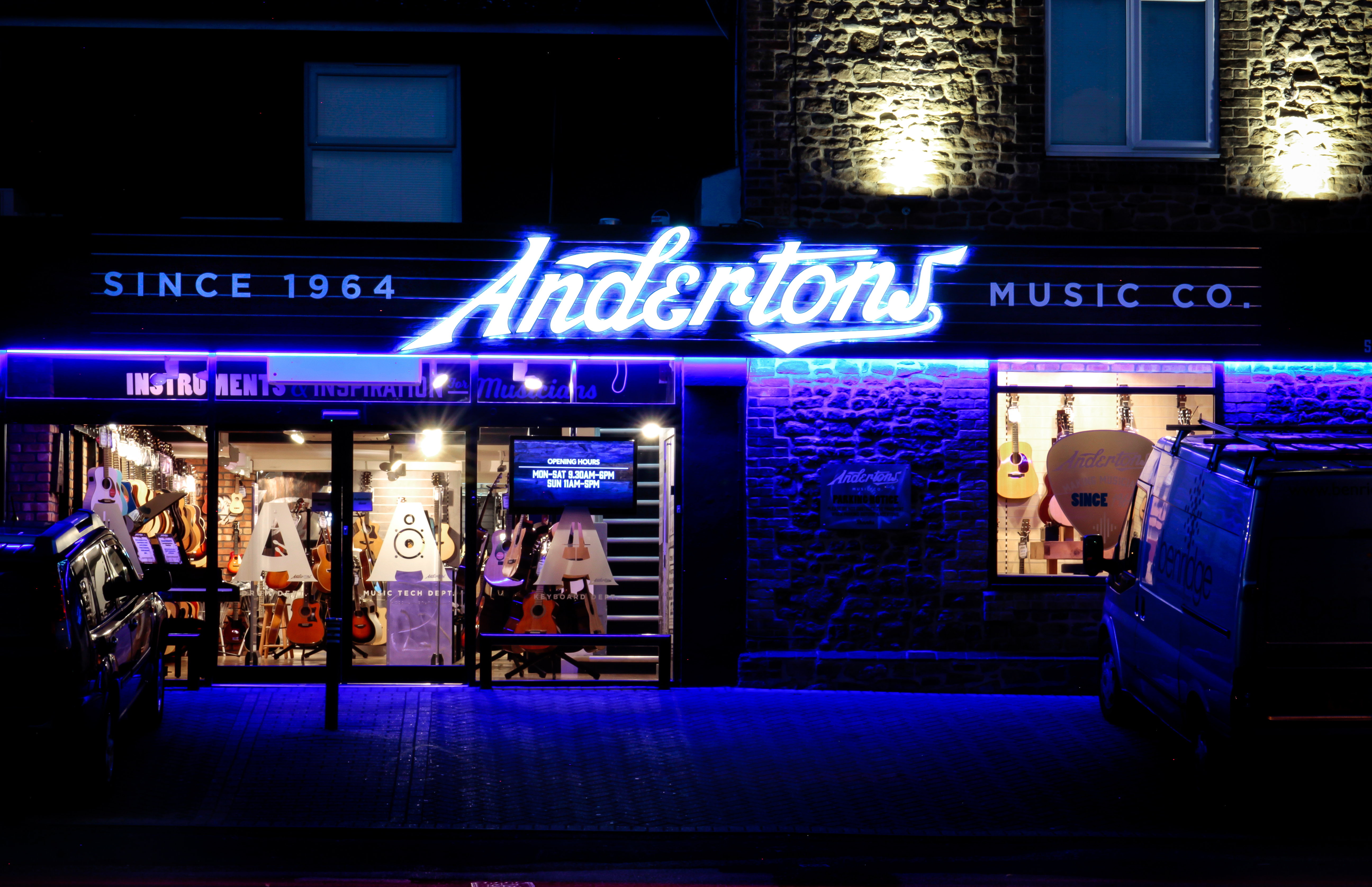 Andertons Music Co. at night.